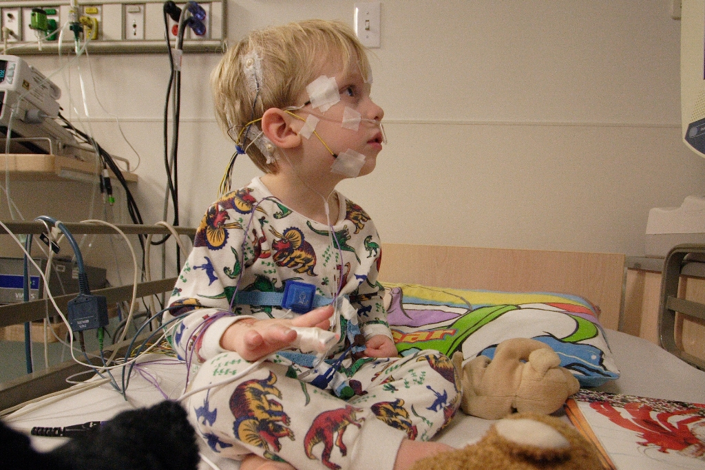 A pediatric patient prepared for a polysomnogram by a respiratory therapist, St. Louis Children's Hospital, St. Louis, Missouri, 2006.